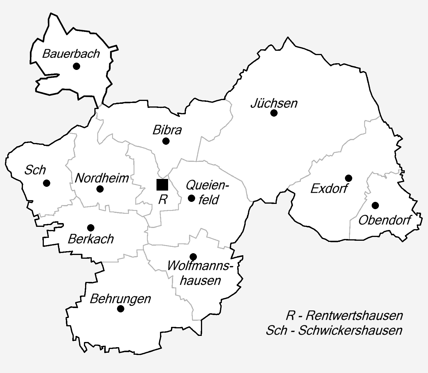 District-Maps of Grabfeld (Thüringen).